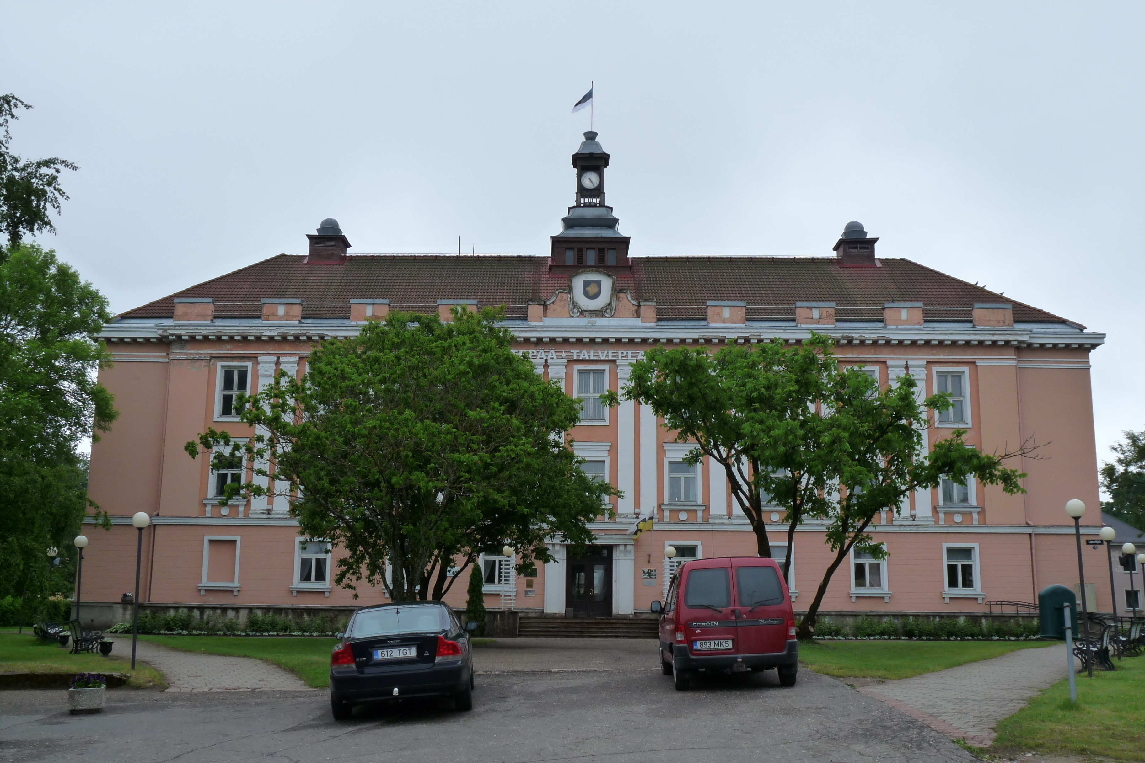 Town hall of Otepää